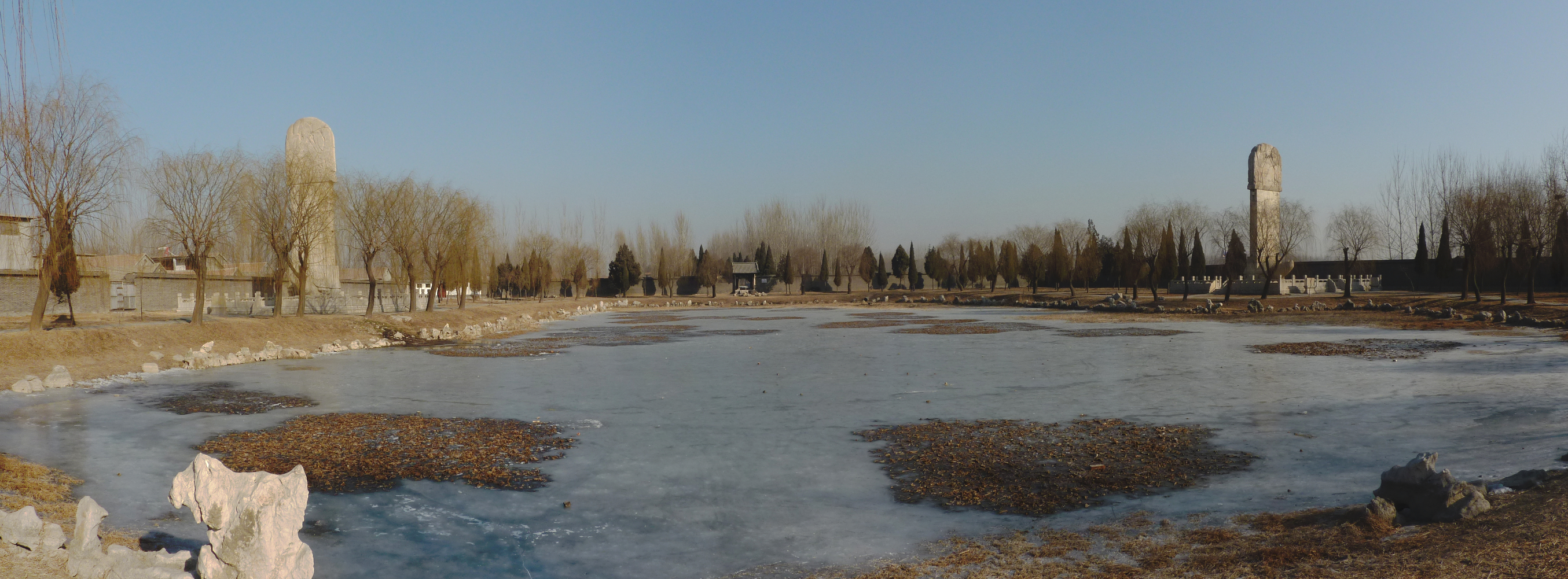 The Shou Qiu site - the two giant turtle-borne steles on the eastern and western side of a small lake. As almost all turtles of these kind, the two turtles look to the south. The western stele is known as "Qing Shou Stele", the eastern stele, as the "Wan Ren Chou Stele". A panorama of the site, seen from the south.